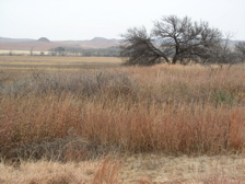 Photo by Matthew A. Lynn